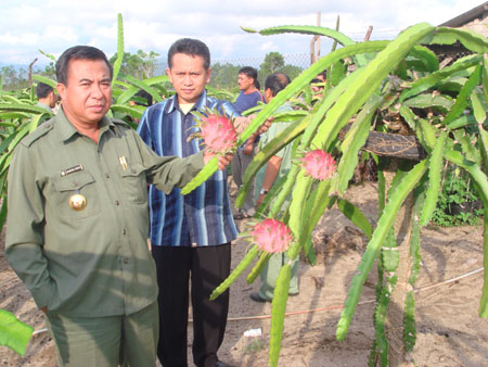 Major Bando Amin at dragonfruit plantation